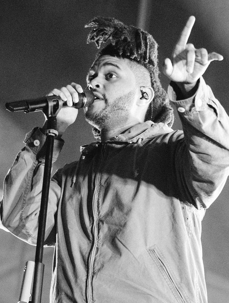 The Weeknd at Bumbershoot 2015